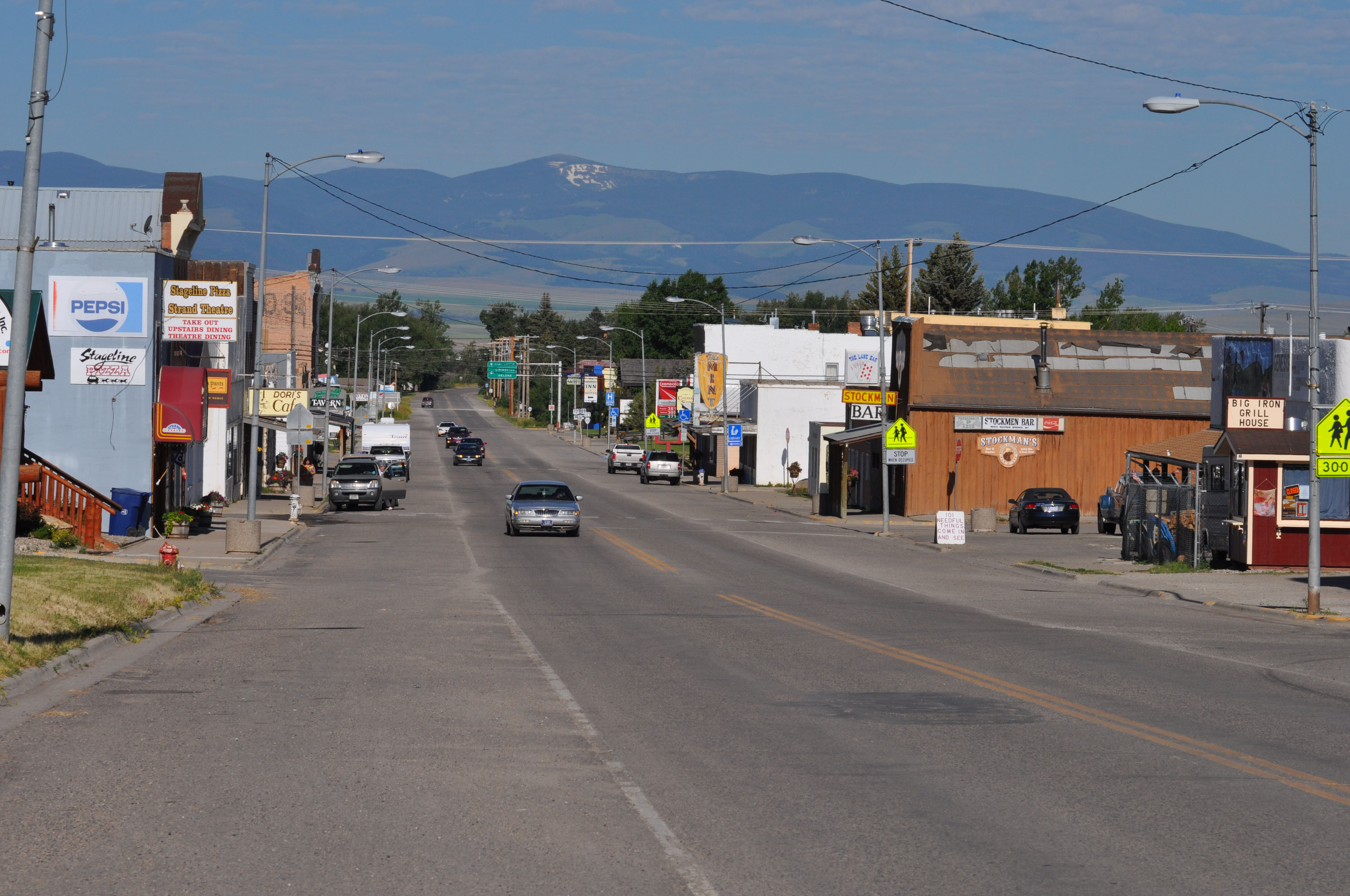 Highway 12 through White Sulphur Springs, Montana 2011-07-17